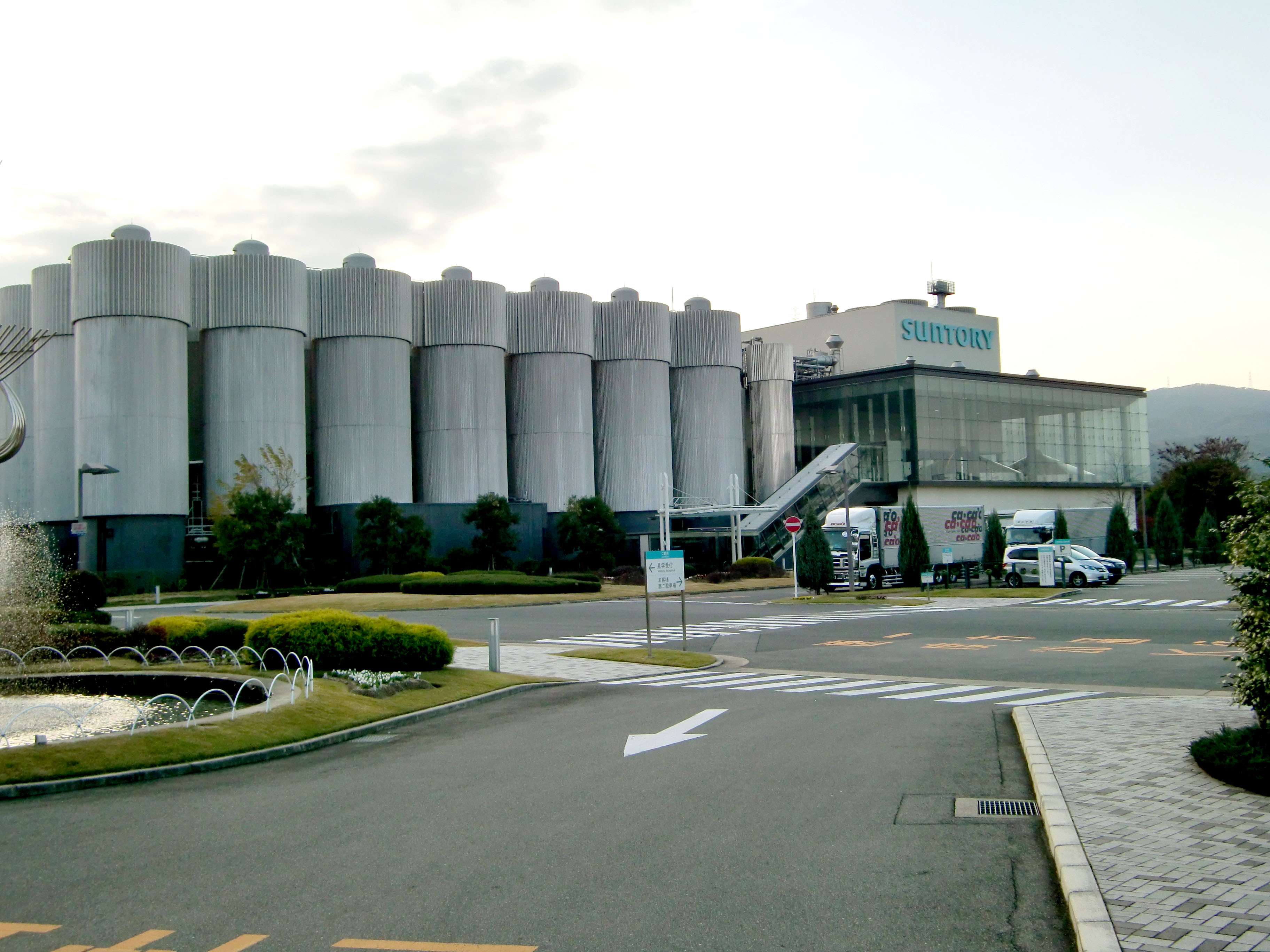 Suntory Kyoto Brewery,3-1-1 Choshi Nagaokakyo-City Kyoto Japan.